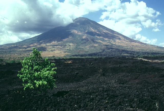 This sparsely vegetated basaltic lava flow was erupted from a fissure vent on the lower SE flank of San Miguel in 1819. The flow covers a broad 2.5-km-wide, 5-km-long area on the low-angle slopes below the volcano and reaches down to an elevation of less than 40 m above sea level. The principal coastal highway of El Salvador traverses the flow below the point of this photo, and the national railway crosses the flow closer to the vent.